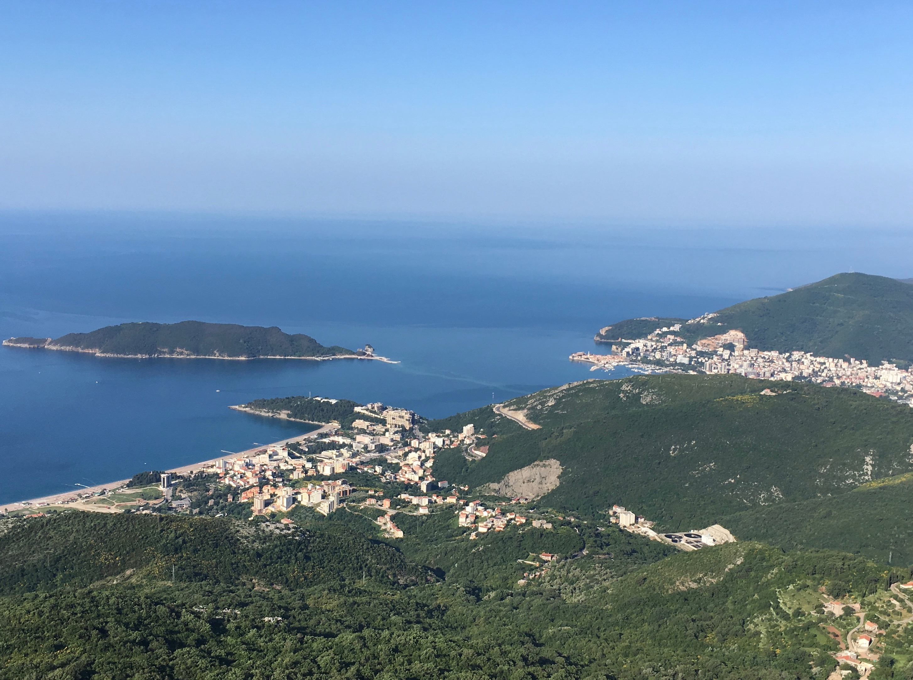 A view from the M2.3 road to Budva Municipality - Bečići on the left, Budva on the right, Sveti Nikola island.